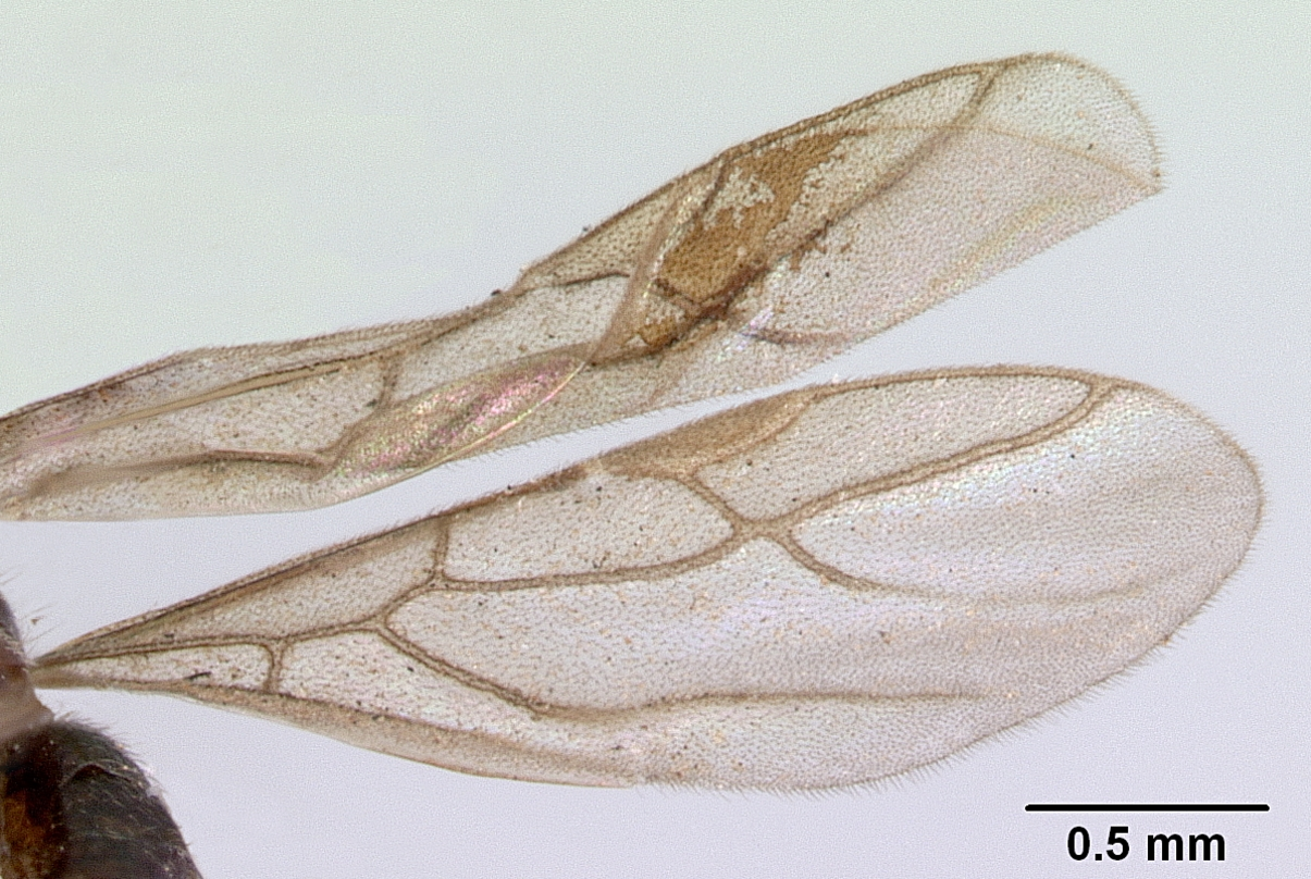 Profile view of ant Acropyga myops specimen casent0172017.